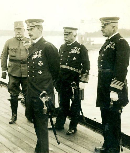 Austrian emperor and Hungarian-Croatian king Charles I onboard SMS Admiral Spaun in Pula harbour in October 1917; behind him Austro-Hungarian Navy commander, admiral Njegovan (left) and ship's commander, ship-of-the-line captain Vuković-Podkapelski (right)